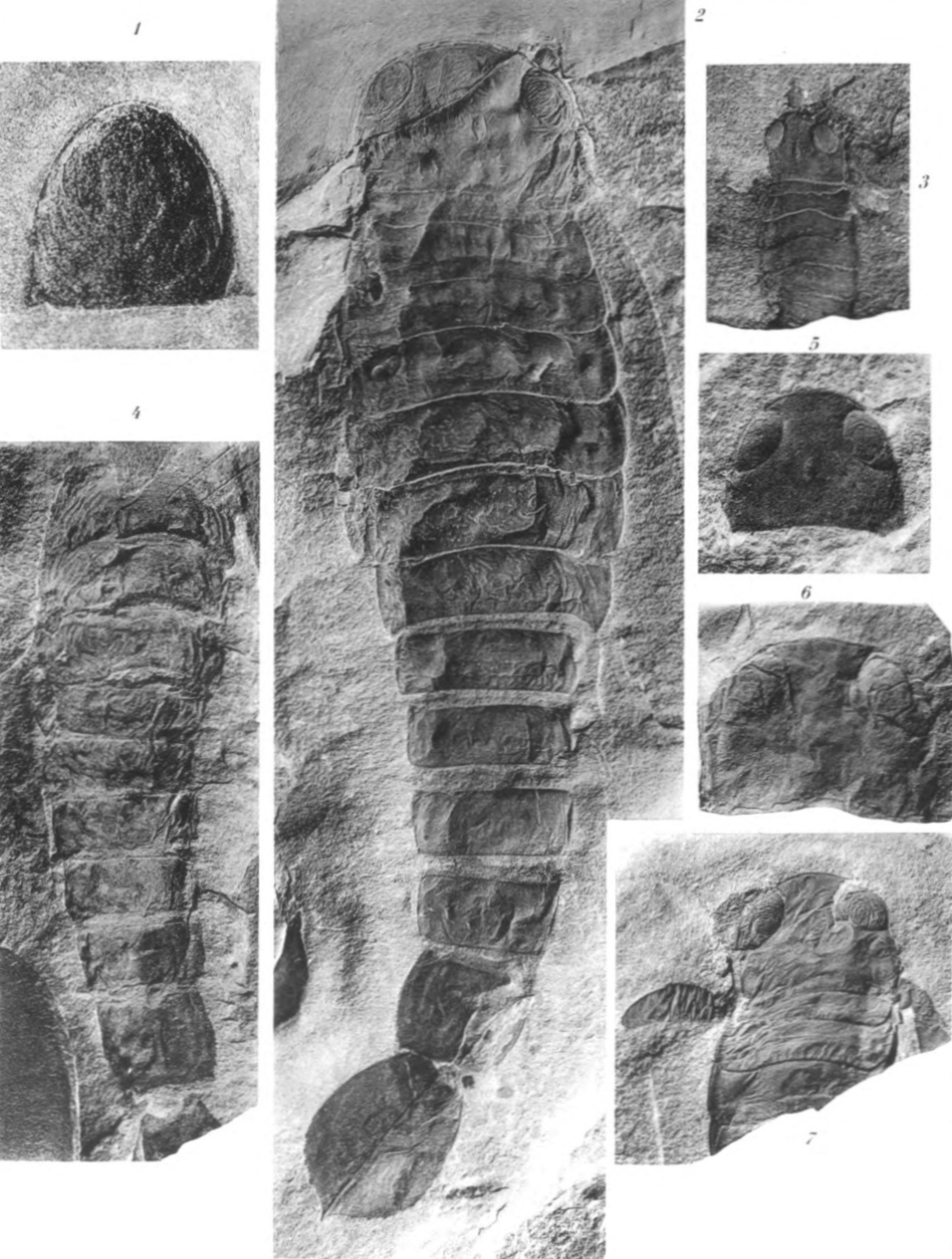 Hughmilleria shawangunk Clarke Page 342 See plates 64–66 1 Carapace showing normal outline and eyes. × 3 Horizon and locality. Shawangunk grit. Otisville, Orange co., N. Y.[1] Hardieopterus (Pterygotus) macrophthalmus Hall Page 350 See plates 72–73 2 A nearly complete specimen showing the dorsal view of the preabdomen and postabdomen, the latter distended and exhibiting the membrane connecting the joints; and the telson. Natural size Horizon and locality. Bertie waterlime. Cranes Corners, Herkimer co., N. Y. 3 A young specimen showing the relatively greater size of the compound eyes and ocellar mound. Natural size Horizon and locality. Bertie waterlime. Marshall, Oneida co., N. Y. 4 Dorsal view of three tergites and postabdomen showing the marginal serrations of the ultimate segment and the median carina. Natural size Horizon and locality. Bertie waterlime. Oneida co., N. Y. 5 Young carapace preserving well the outline of the carapace, the form and prominence of the compound eyes and the ocellar mound. × 2 6 Larger carapace. Natural size 7 Specimen showing the carapace, three tergites and swimming legs. Natural size Horizon and locality. Bertie waterlime. Cranes Corners, Herkimer co., N. Y. All figures are from photographs. The originals of figures 1, 2, 5, 6, 7 are in the State Museum, those of figures 3 and 4 are in the American Museum of Natural History The Eurypterida of New York. Volume 2. New York State Museum Memoir 14, plate 69 ↑ It actually represents Nanahughmilleria clarkei (Kjellesvig-Waering, 1964).